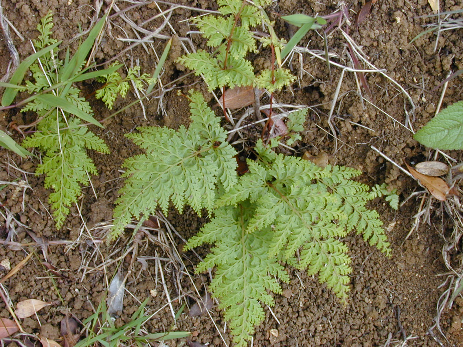 Sphenomeris chinensis (habit). Location: Maui, Waihee Ridge Trail